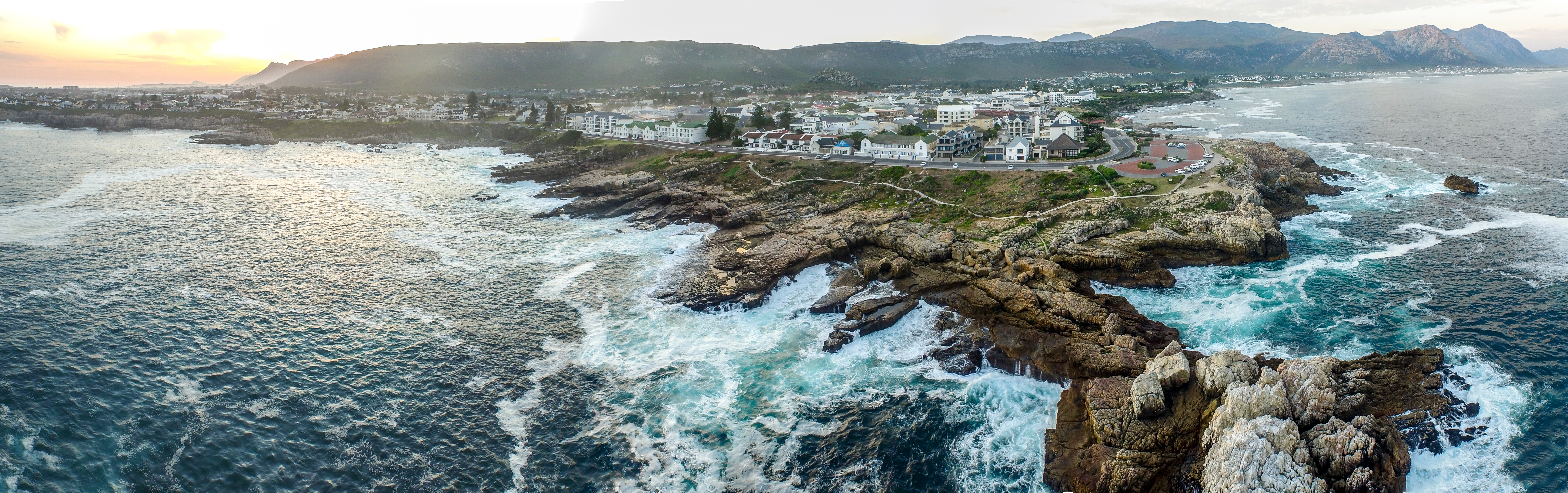 Hermanus has breathtaking scenery; with unparalleled scenic beauty, and endless adventure options, it is no wonder that Hermanus is transformed into a bustling hubbub of activity in-season as well as out-of-season. For any intrepid tourist or appreciator of nature's wonders, Hermanus is the ideal location for an unforgettable experience like whale watching.